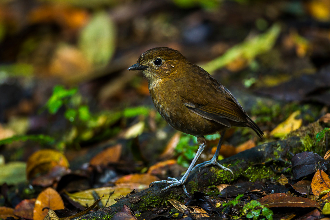 Brown-banded Antpitta - Colombia_S4E1780